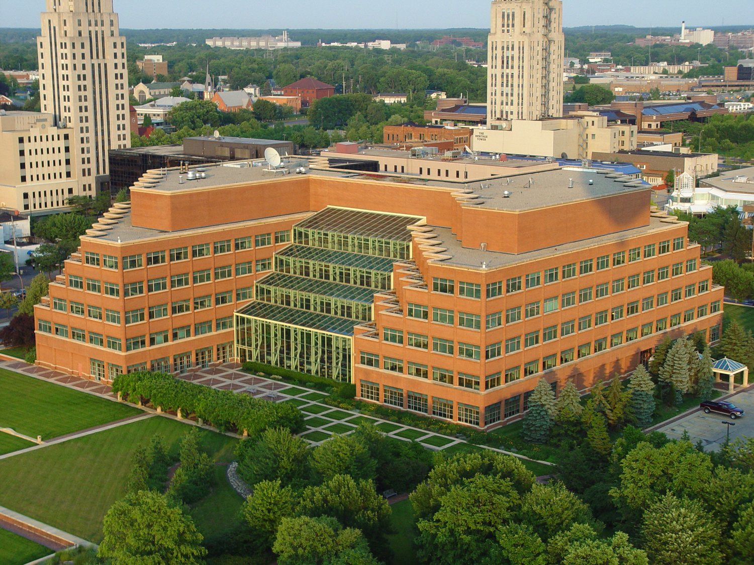 Kellogg World Headquarters, Battle Creek, Michigan, USA. Designed by Hellmuth, Obata and Kassabaum.